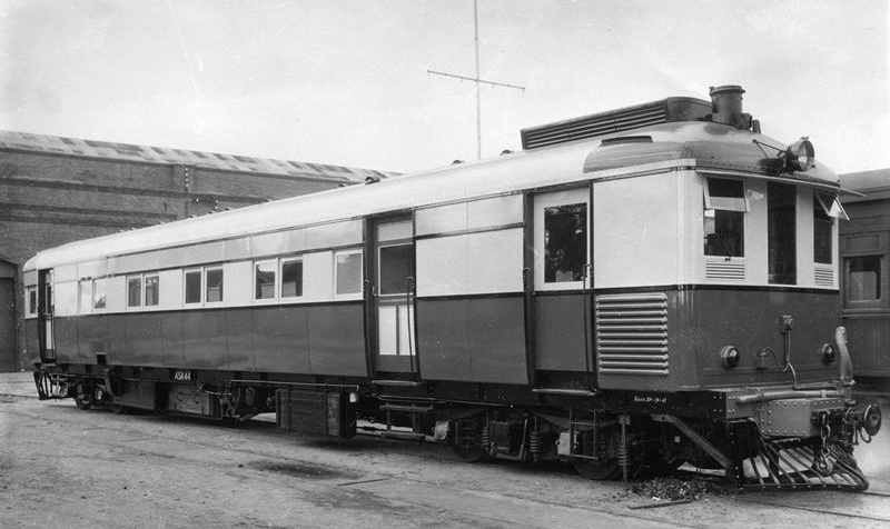 A three quarter view of WAGR ASA class railcar no. 445 outside the Midland Railway Workshops in Midland, Western Australia. The railcar had just been tested and painted prior to its being issued to traffic, which occurred on 7 February 1931.